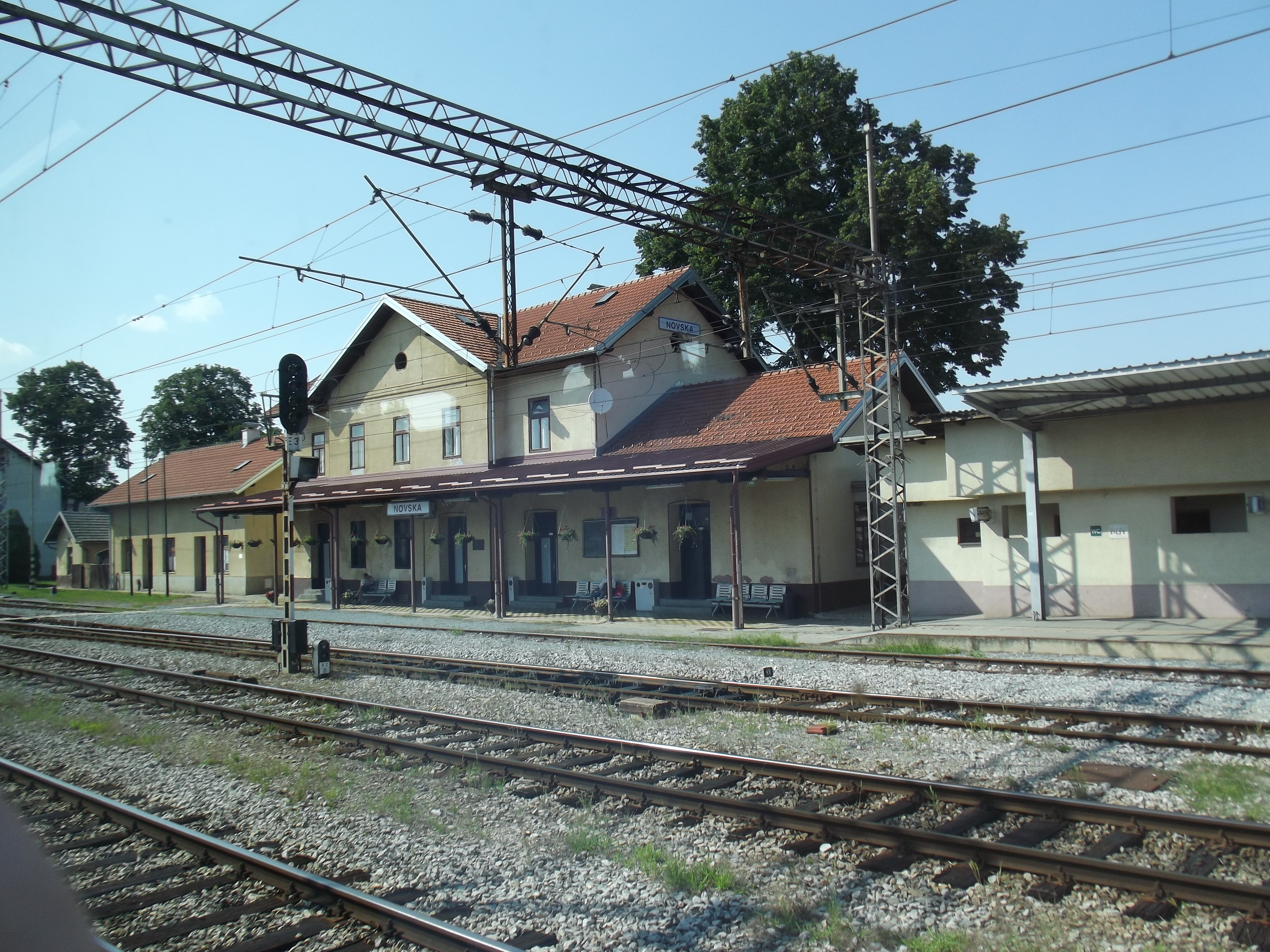 Station Novska seen from the Belgrade Zagreb train